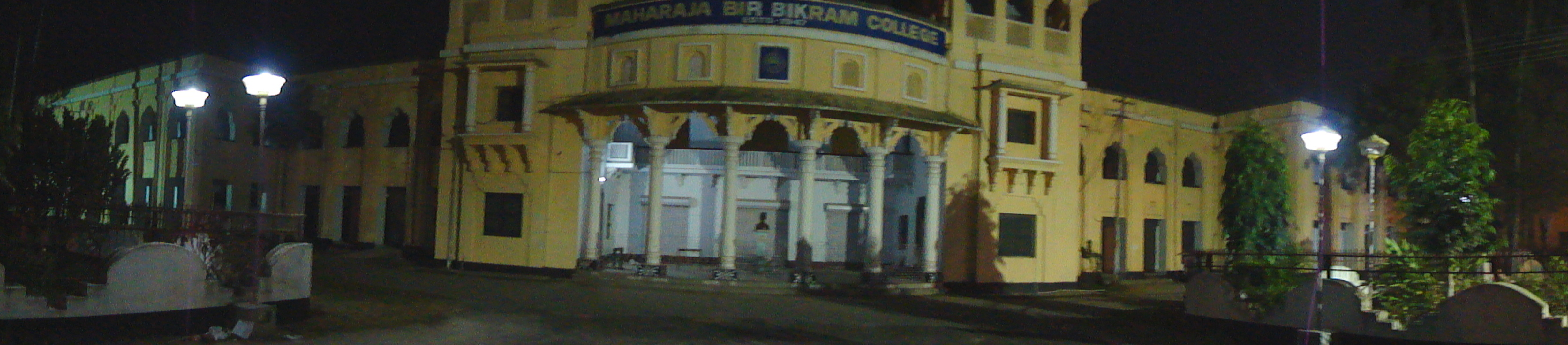 Maharaja Bir Bikram College,(wide)